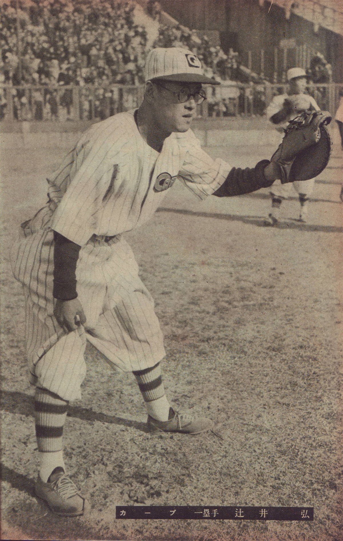 Hiroshi Tsujii (Hiroshima Carp). taken in 1950.